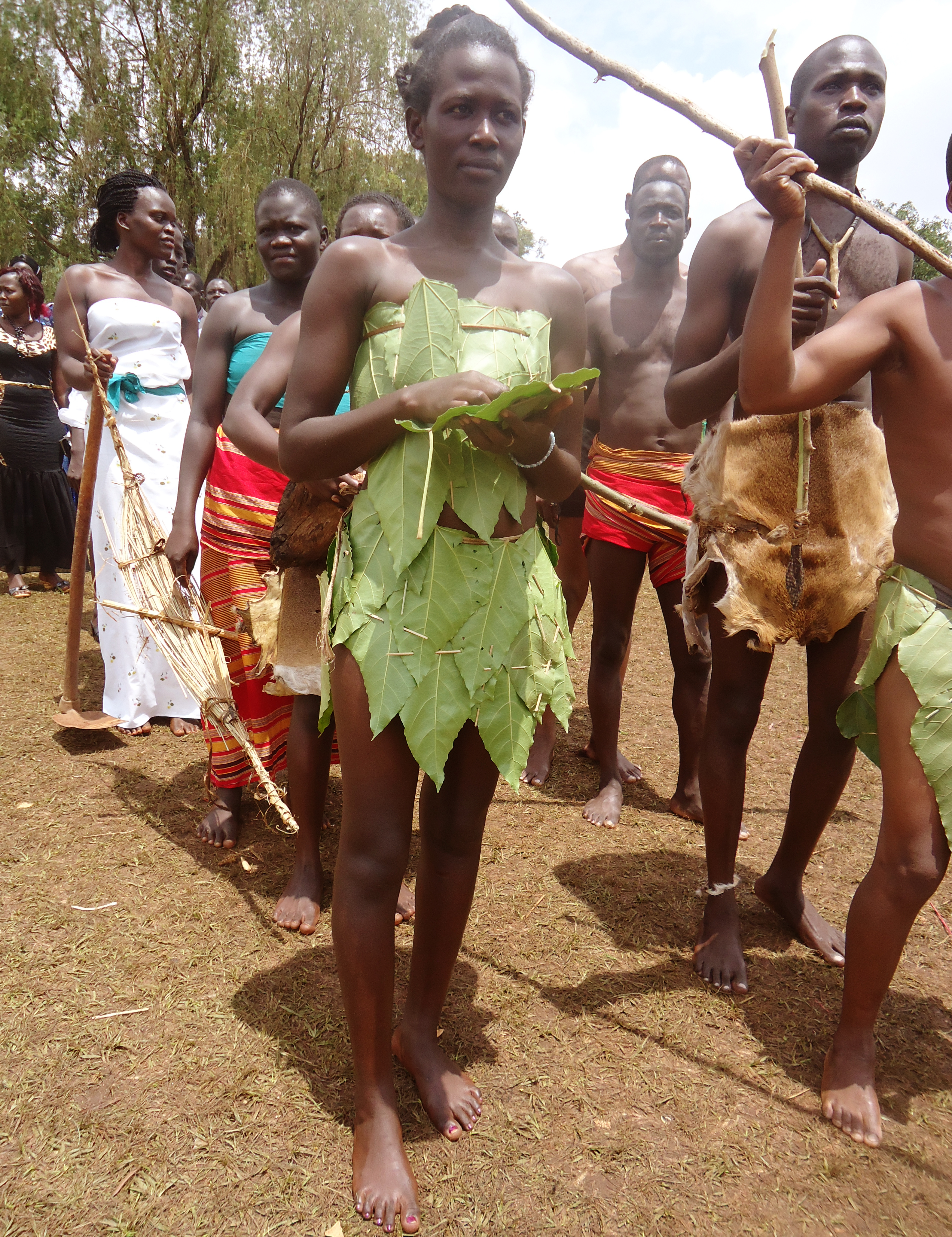 the Langi started buy wearing leaves This is an image of Cultural Fashion or Adornment from Uganda